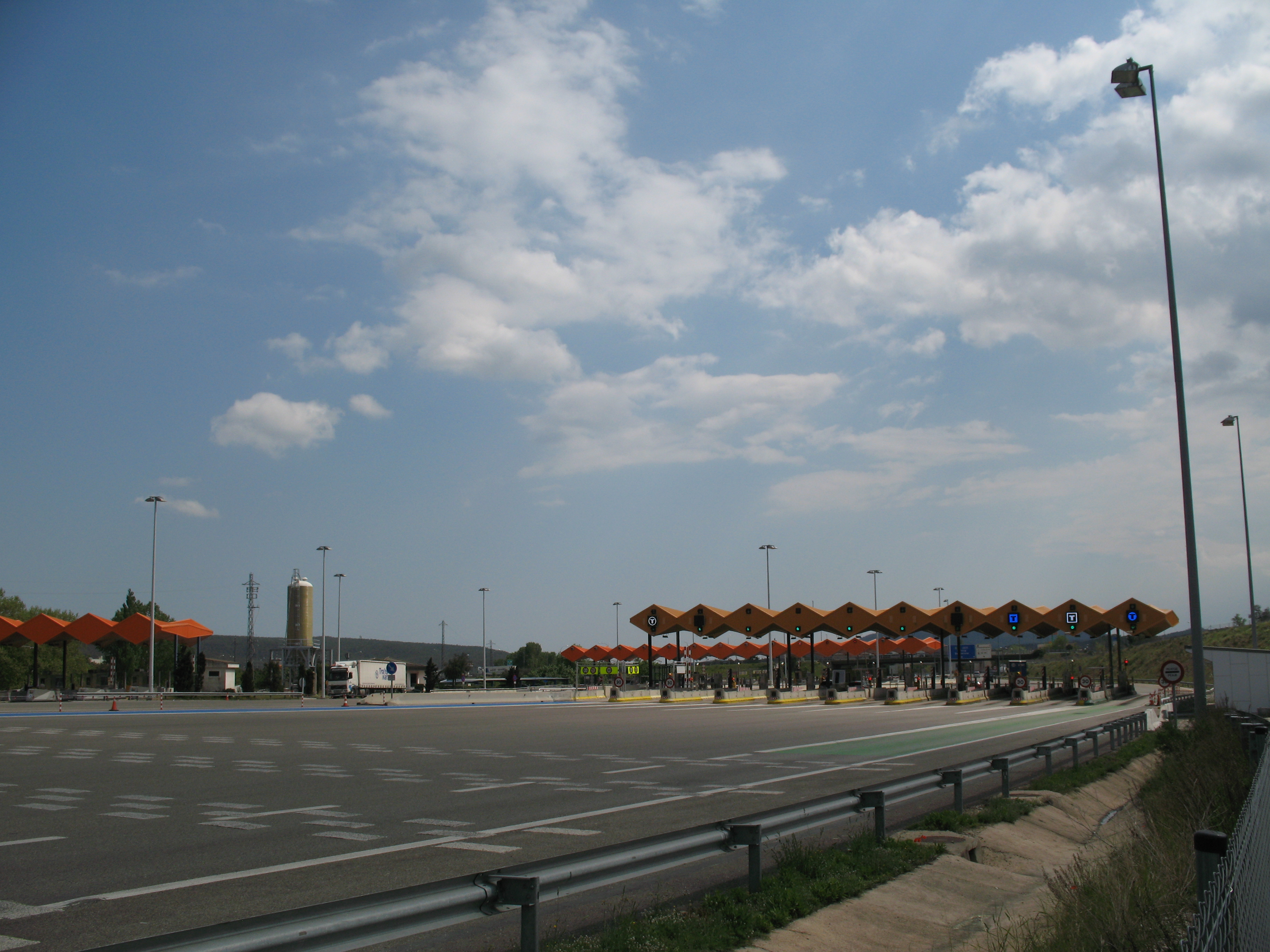 Toll motorway on the AP-7 to La Jonquera.